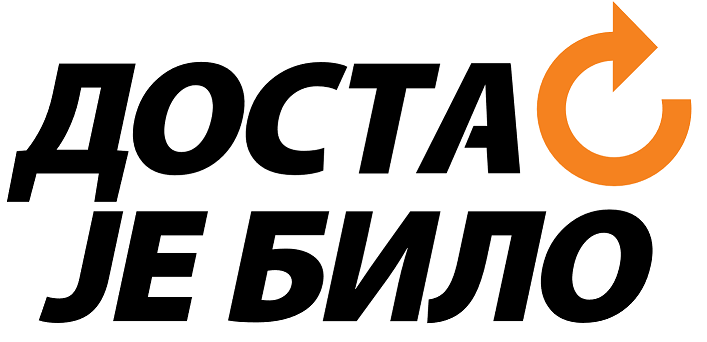 DJB new logo